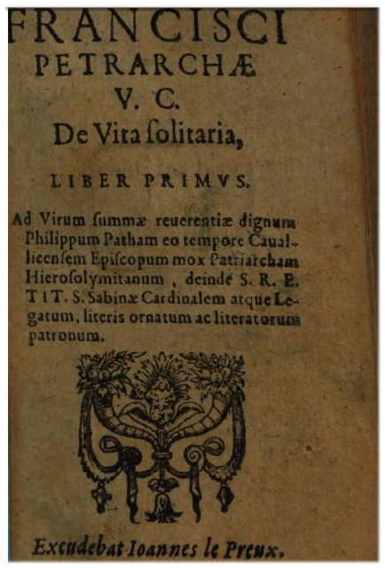 De Vita Solitata book cover 1600